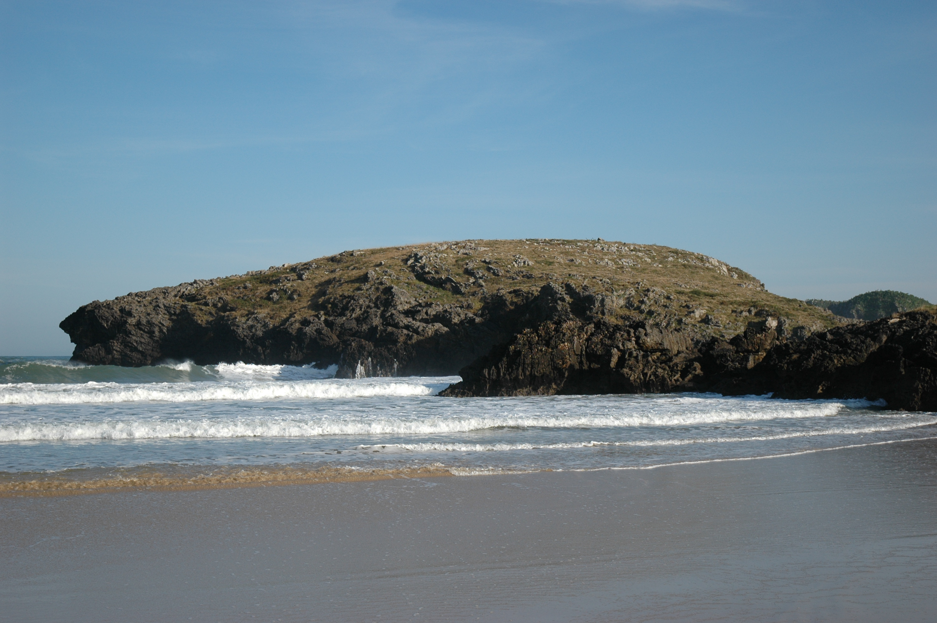 Eastern side of the beach of Barru (Llanes, Asturies). Ramón islet can be seen in the picture.